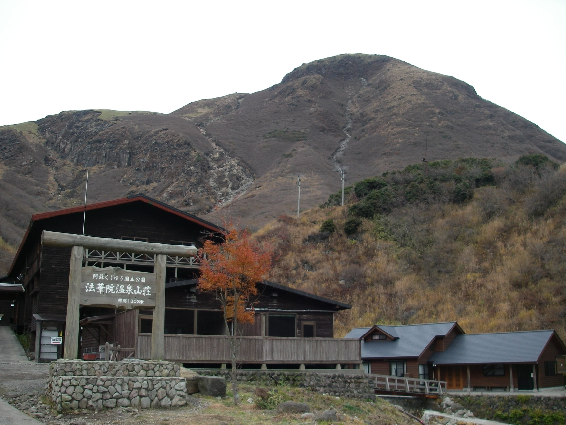 Hokkein Onsen hotspring